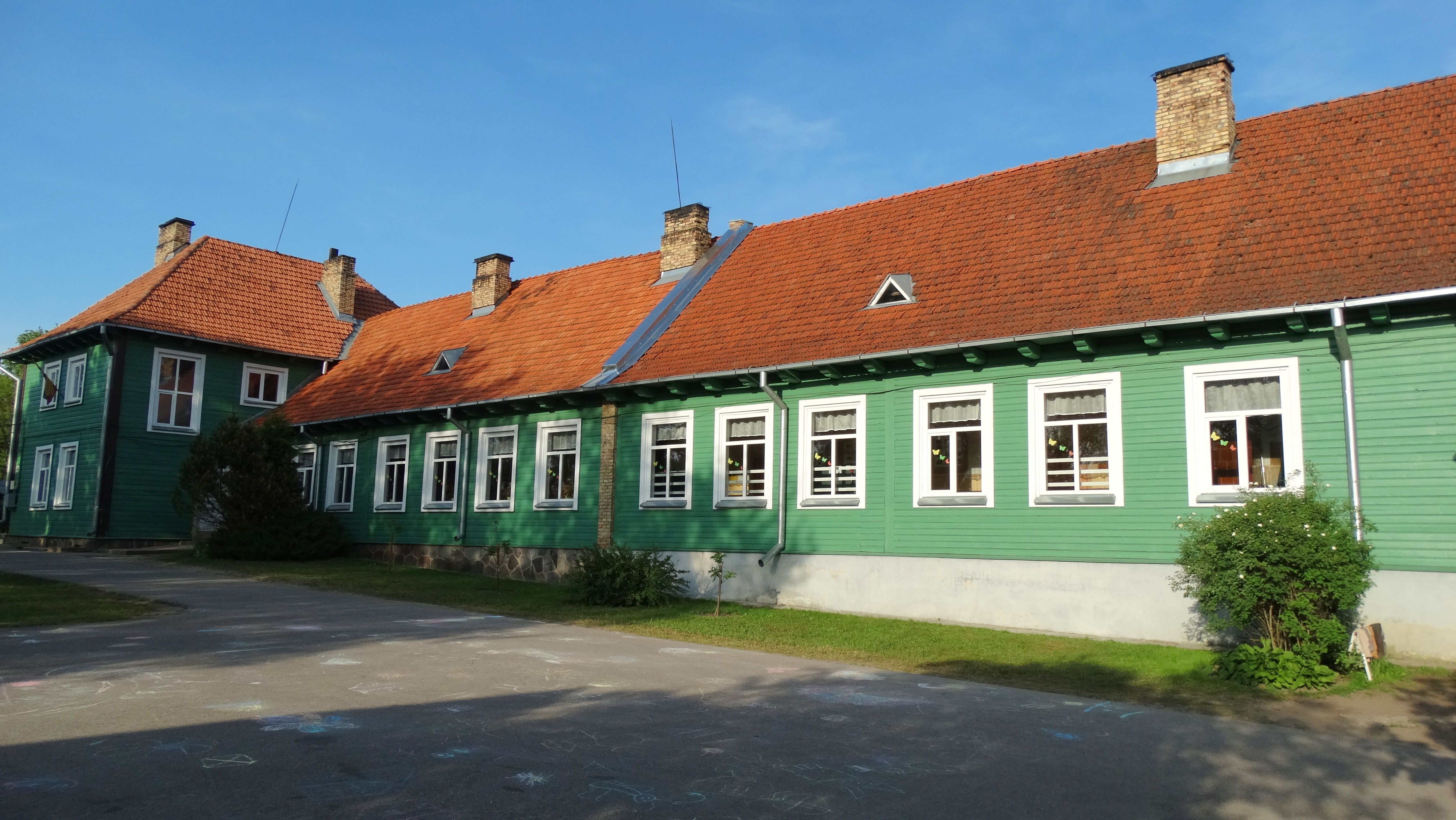 School, Bezdonys, Vilnius District, Lithuania